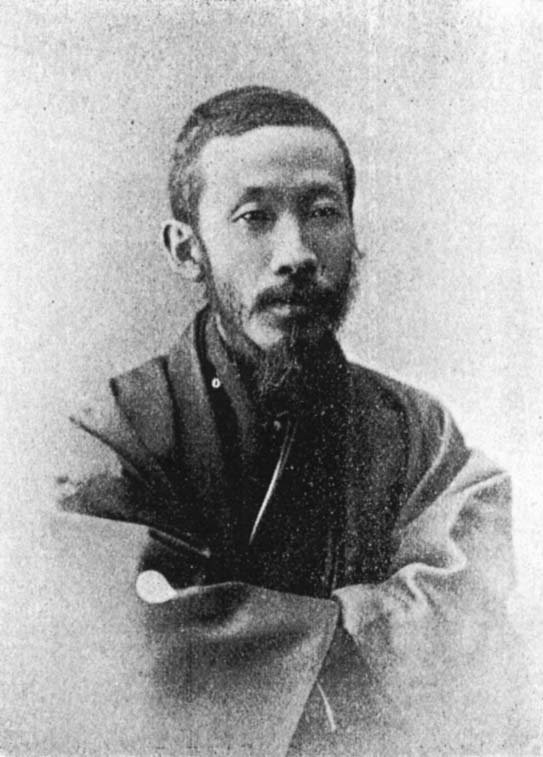 Mr. Shigetake Sugiura.